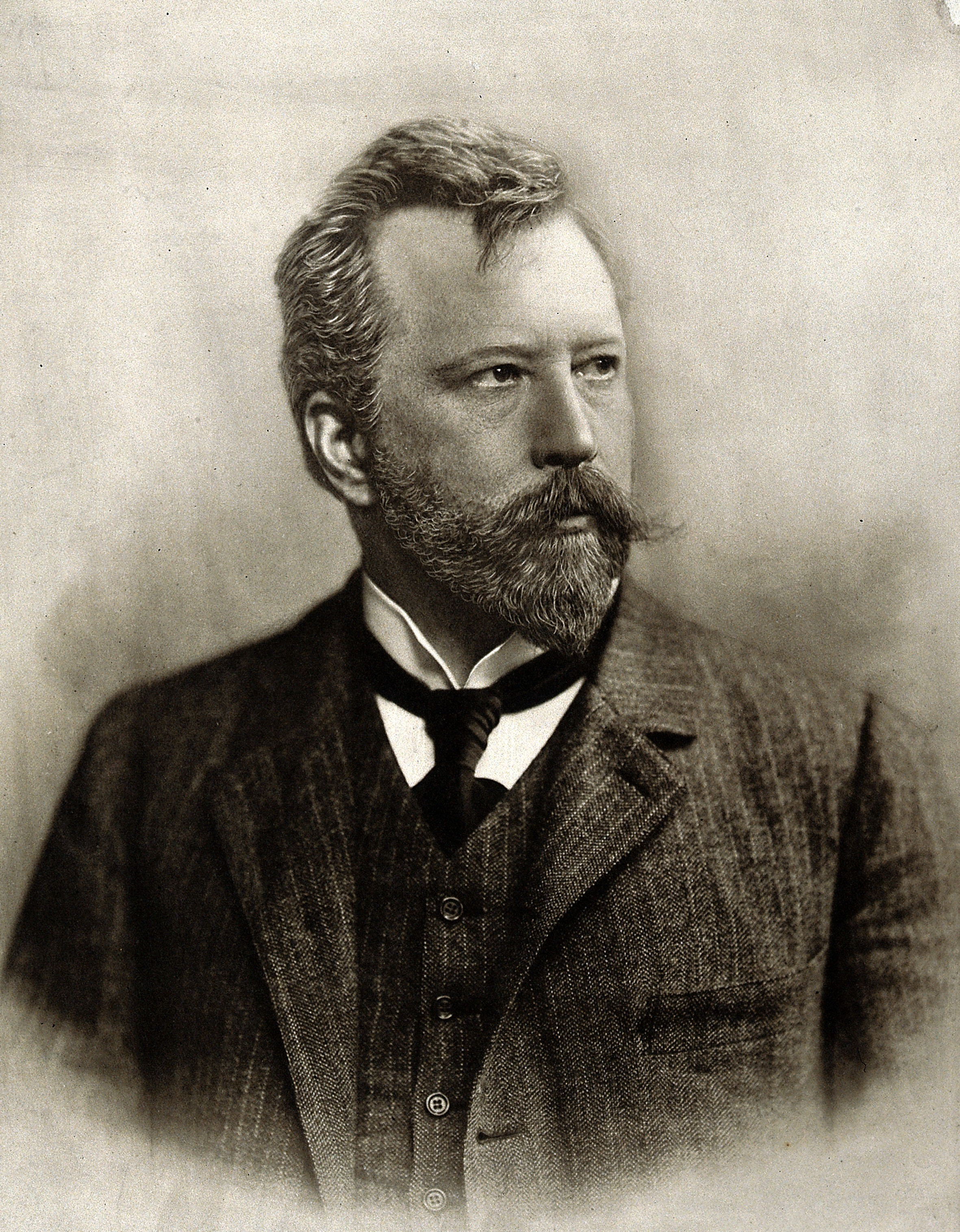 Otto Hildebrand. Photogravure after Meisenbach Riffarth & Co. Iconographic Collections Keywords: portrait prints